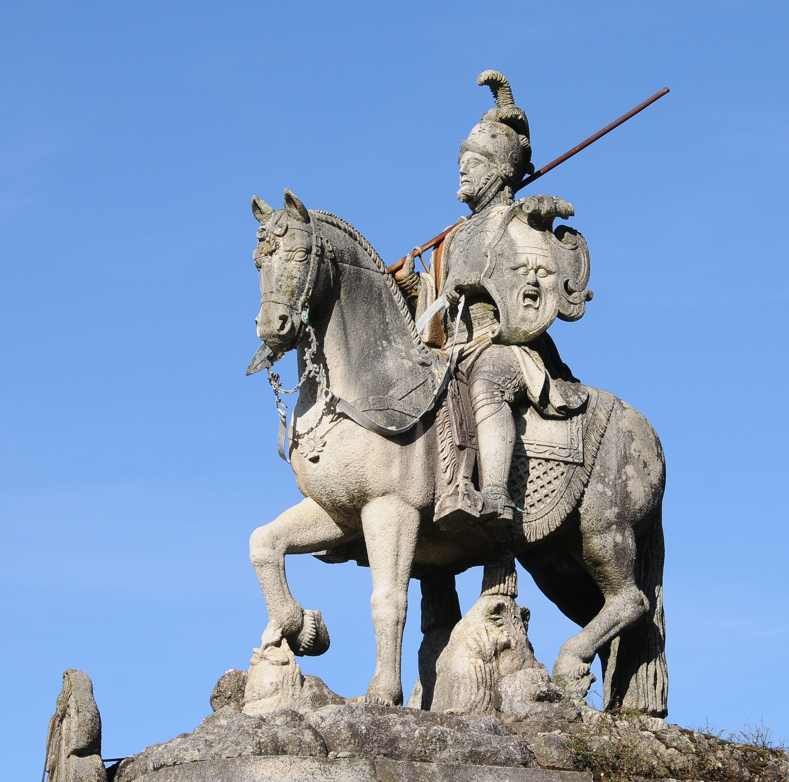 Statue of São Longuinhos, in Bom Jesus, Braga, Portugal.